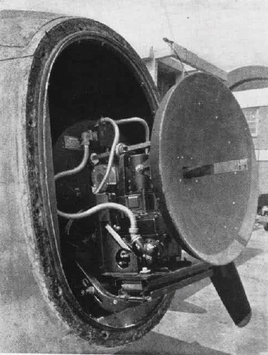 An AN/APS-3 radar mounted on a U.S. Navy Lockheed PV-2 Harpoon in 1946.